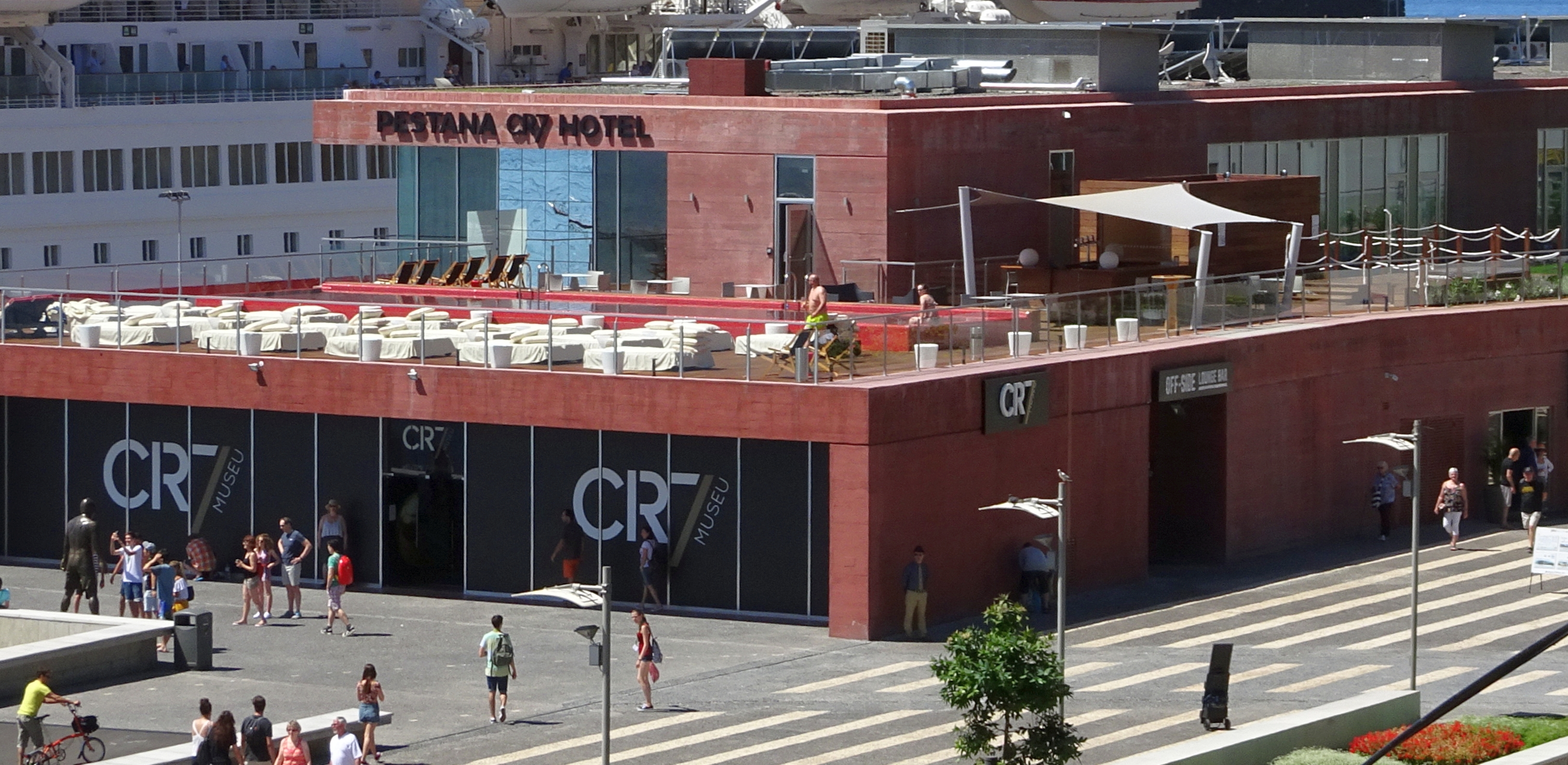 CR7 museum and hotel in Funchal, Madeira